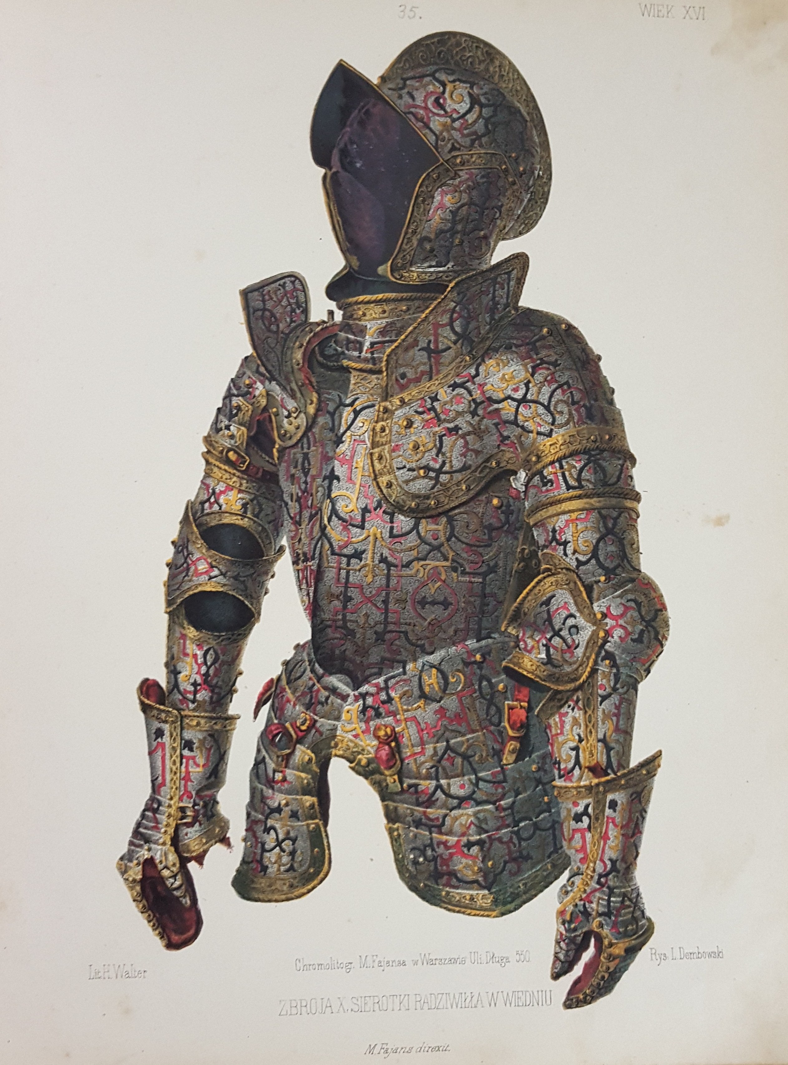 Armour of prince Mikołaj Radziwiłł the Black in Vienna collection.